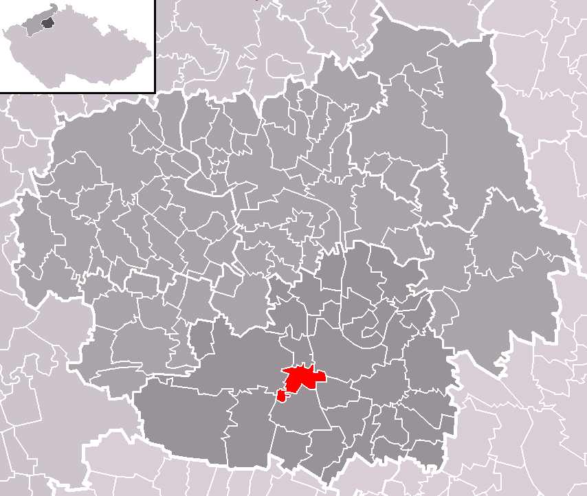 Location of Přestavlky municipality within Litoměřice District and administrative area of Roudnice nad Labem as a Municipality with Extended Competence.